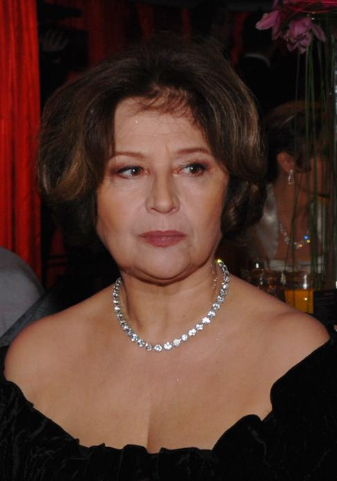 Emília Vášáryová at the 2011 Bratislavský bál.